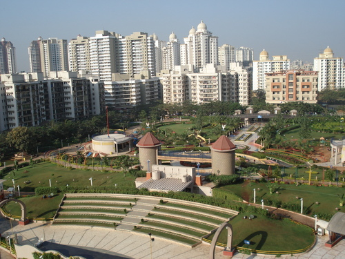 View of Thakur Village, Kandivali, Mumbai